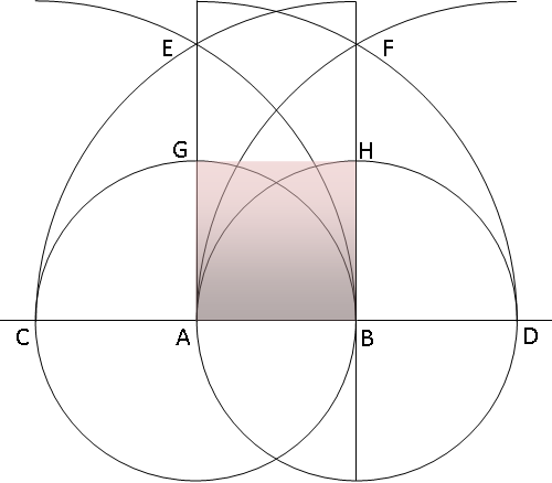 Building a square according to Euclid's Proposition 47 Book I